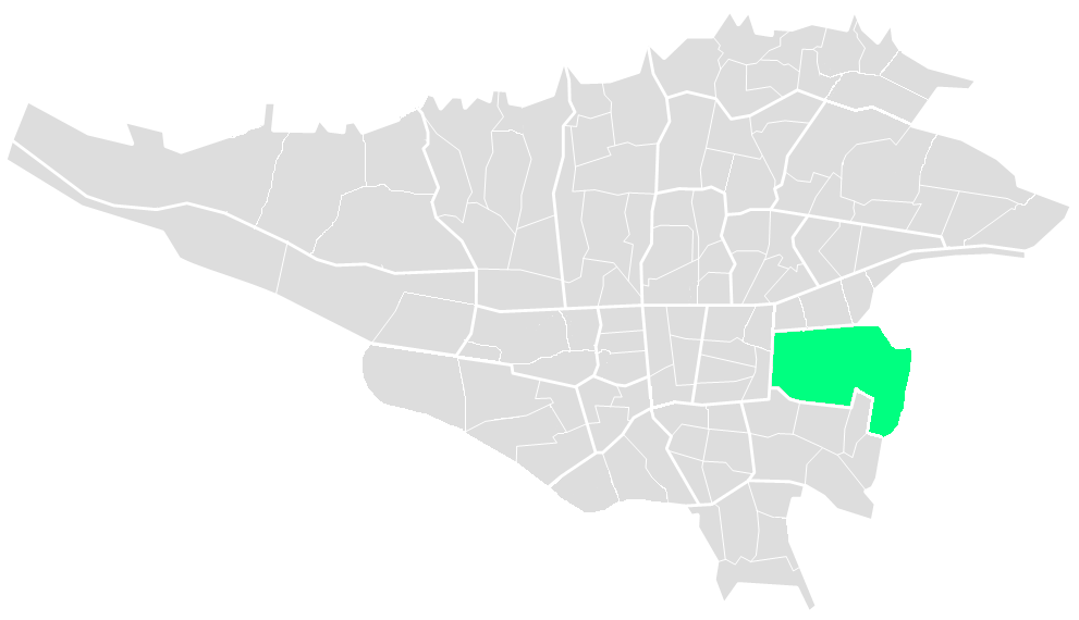 Region 14 of Tehran